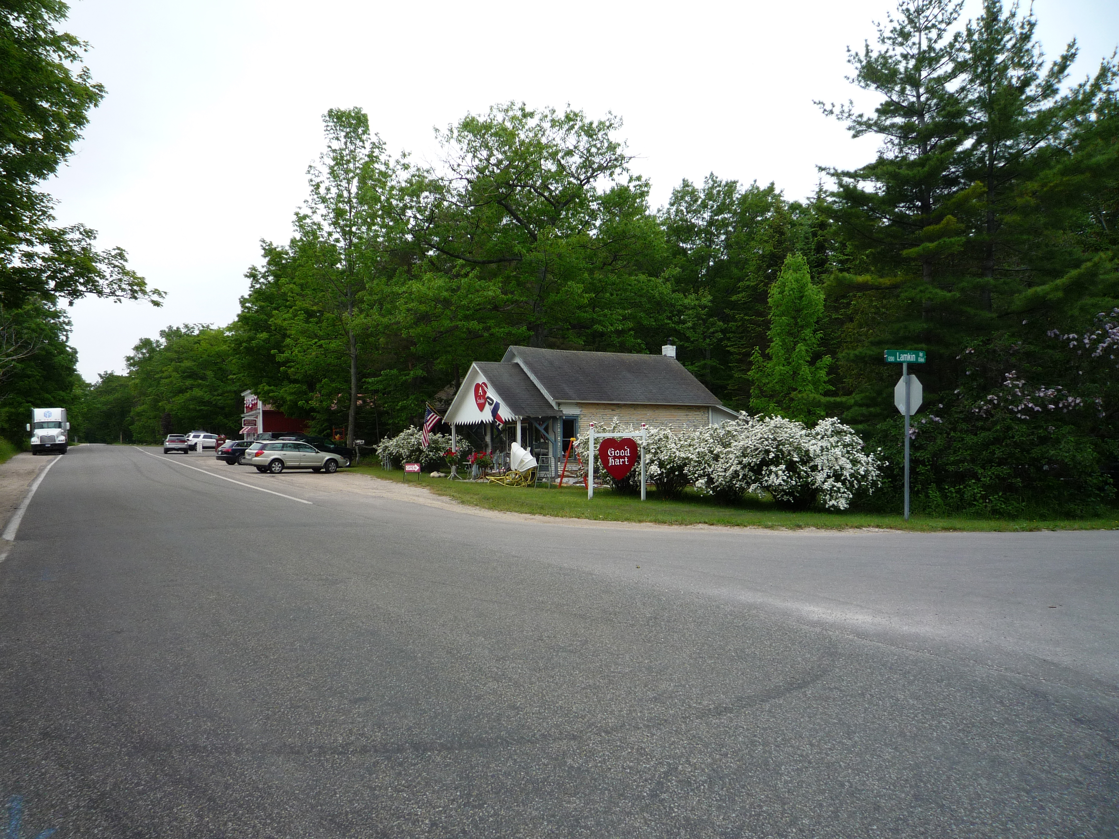 View of Good Hart, Michigan, USA on M-119.